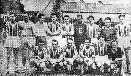 The Chacarita Juniors squad that won the Primera B title.